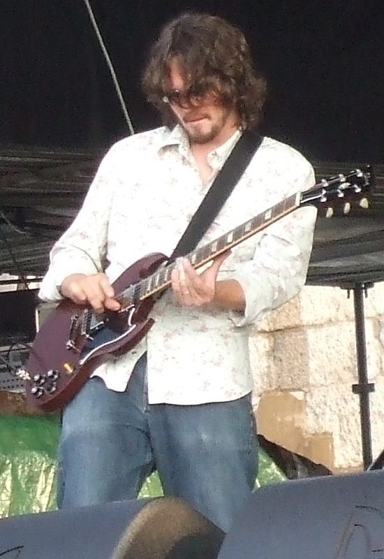 Luther Dickinson playing a Gibson SG guitar with the Black Crowes at the 2008 Newport Folk Festival